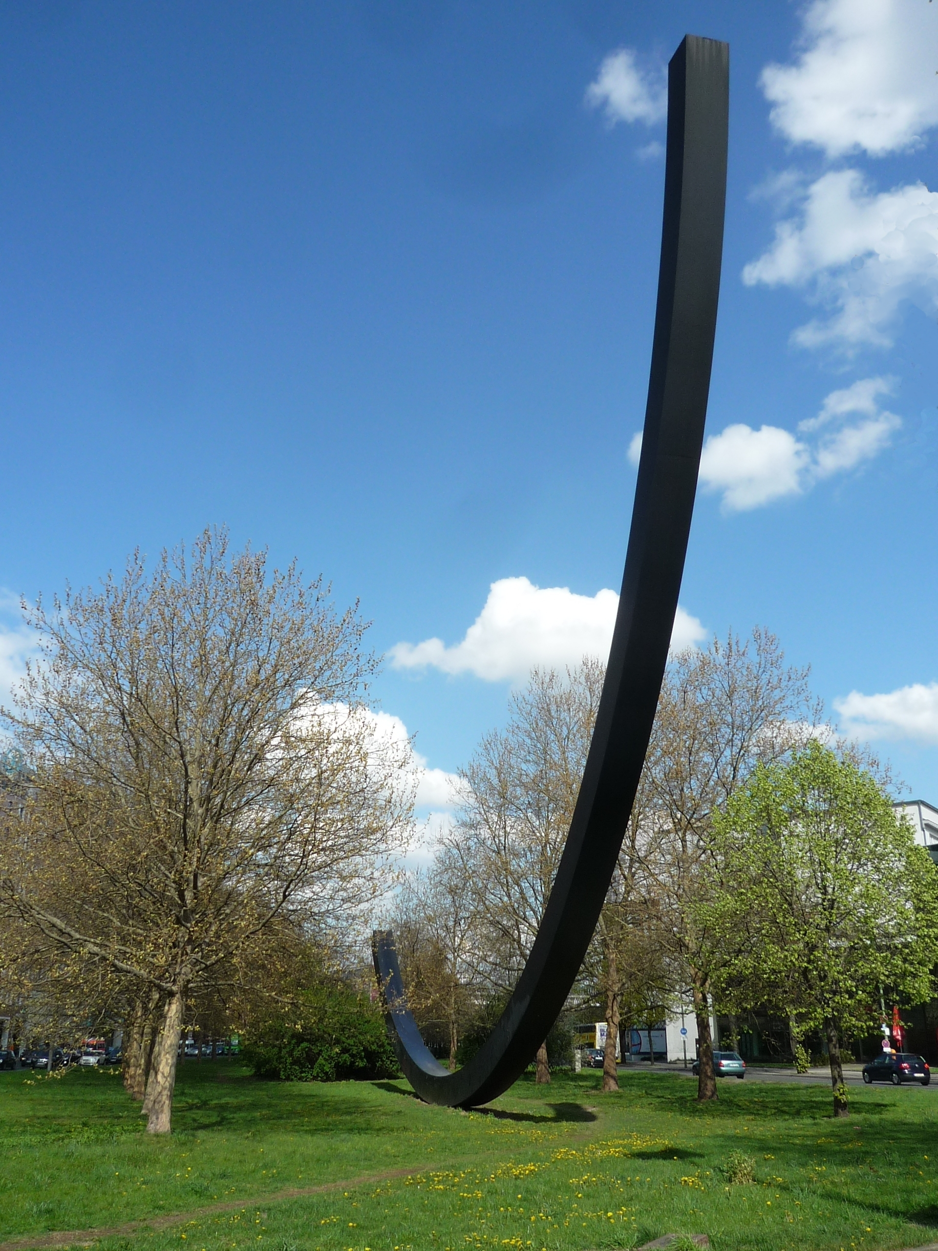 "Arc de 124,5°", artwork by Bernard Venet, steel, 1987. Situated "An der Urania", Berlin-Schöneberg.